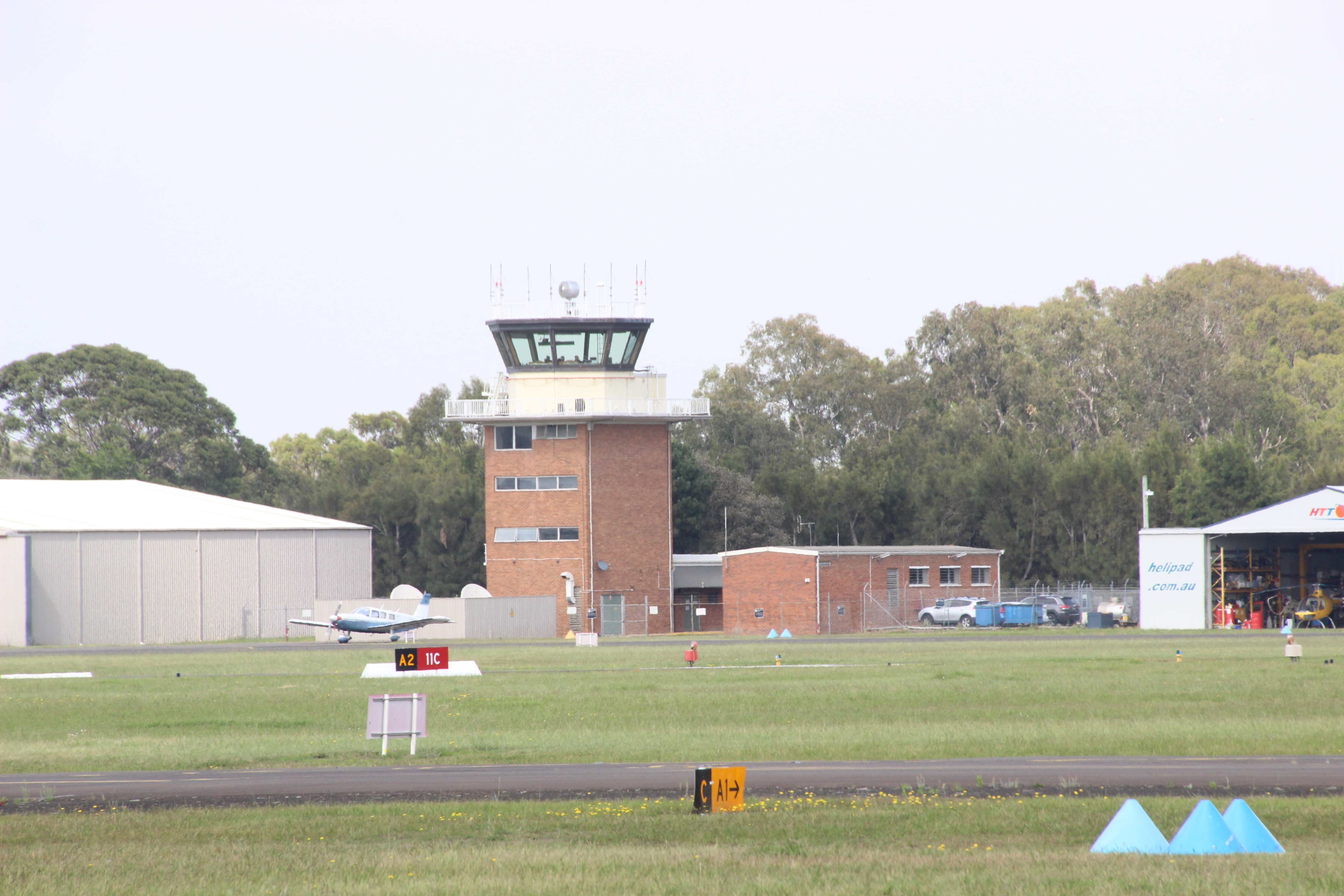 View of the heritage-listed air traffic control tower on the western side of Bankstown Airport in Sydney, Australia, taken from the other side of the airport's runways looking in a southwesterly direction.